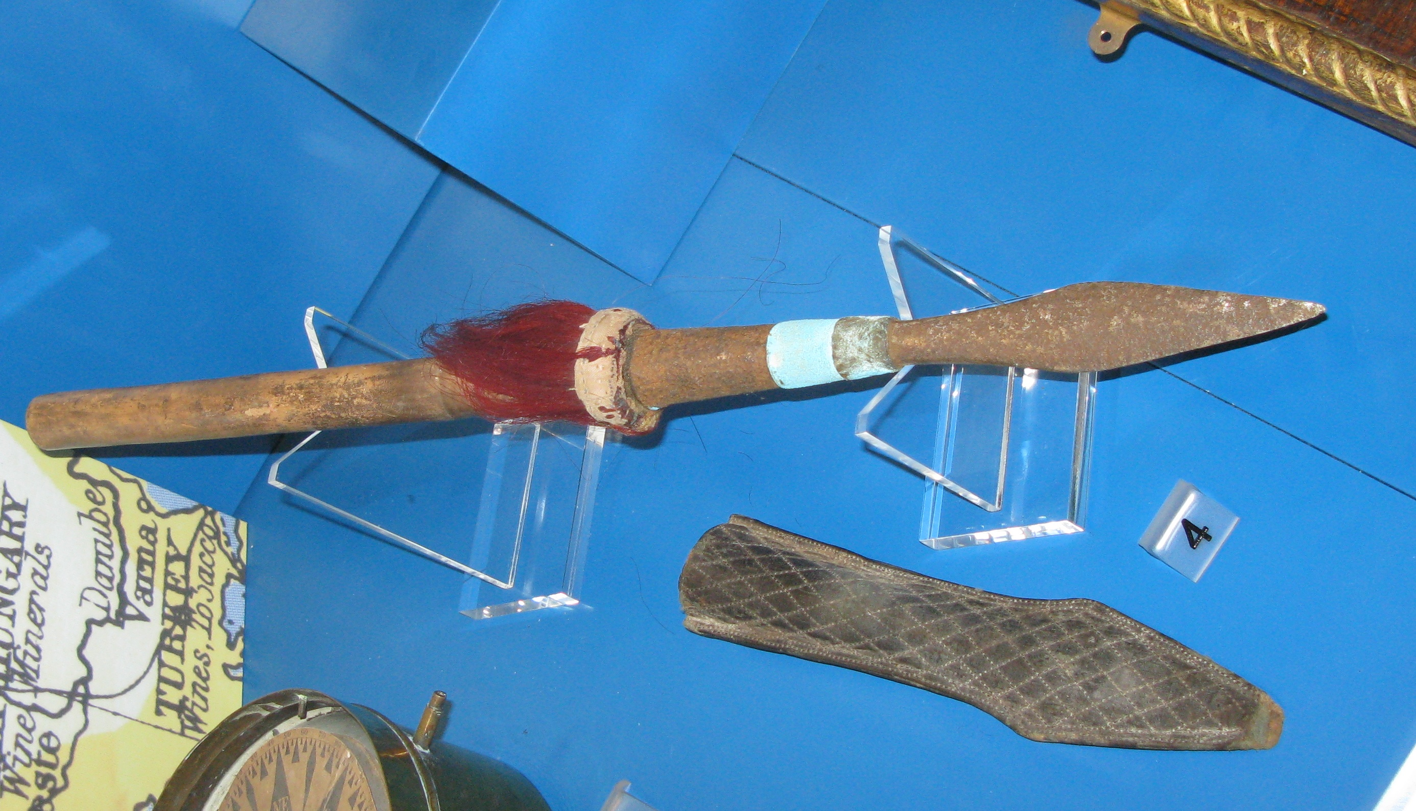 Photo of a spear tip taken from chinese pirates by the crew of HMS L4 in the process of recaptureing SS Irene